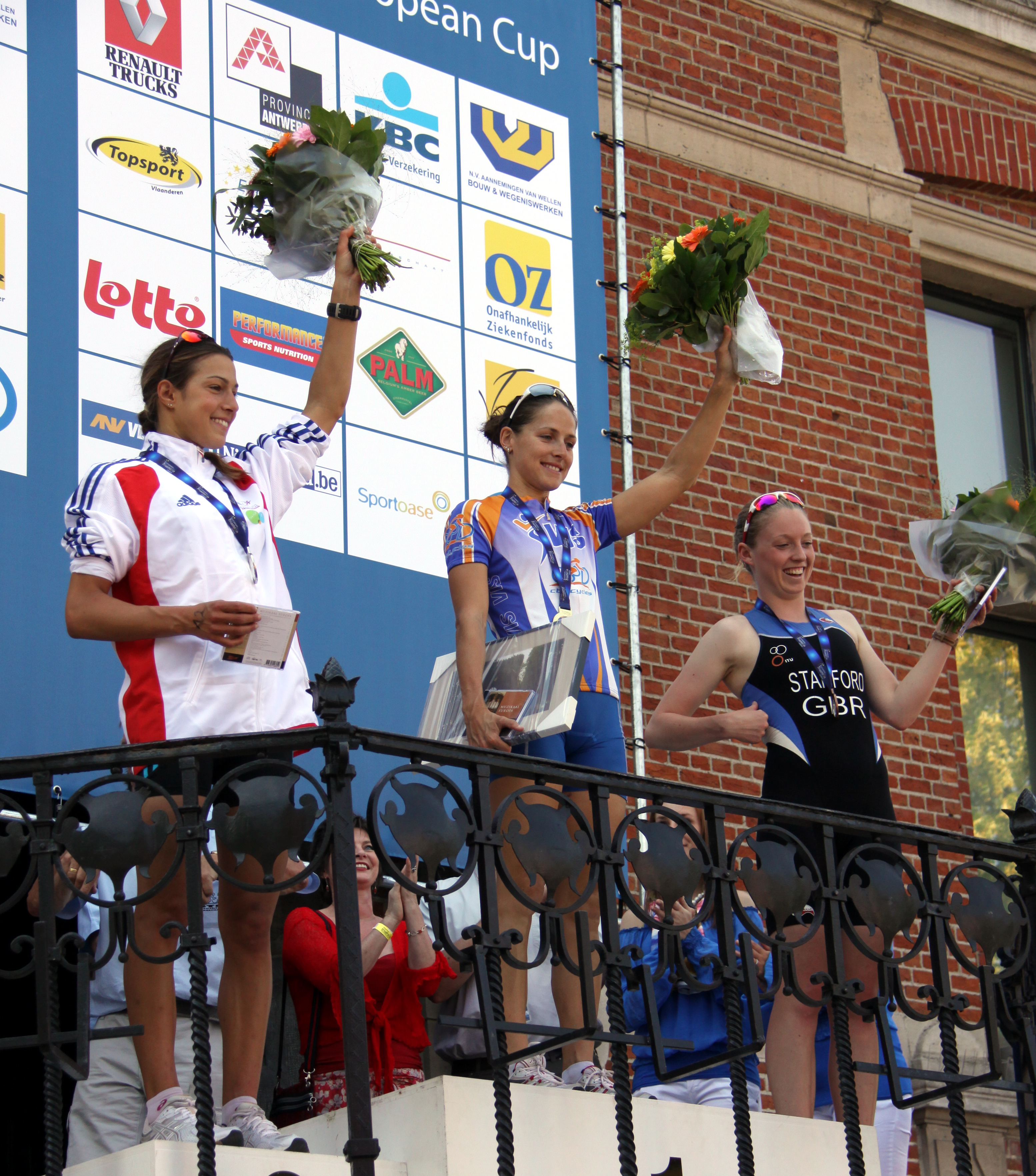 The winners of the Premium European Cup triathlon in Brasschaat 2010, Charlotte Morel, Erin Densham, and Non Stanford (from left to right).